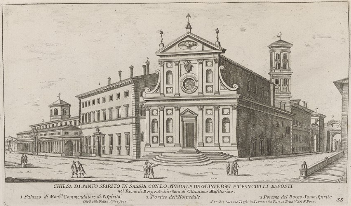 View of the Church of Santo Spirito in Sassia ("Church of the Holy Spirit in the Saxon district"). Includes a view of the adjacent Palazzo di Santo Spirito (1 in image), the Hospital entrance (which was joined to the Church in 1475 under Pope Sixtus IV; 2 in image), and the archway of Santo Spirito (3 in image).